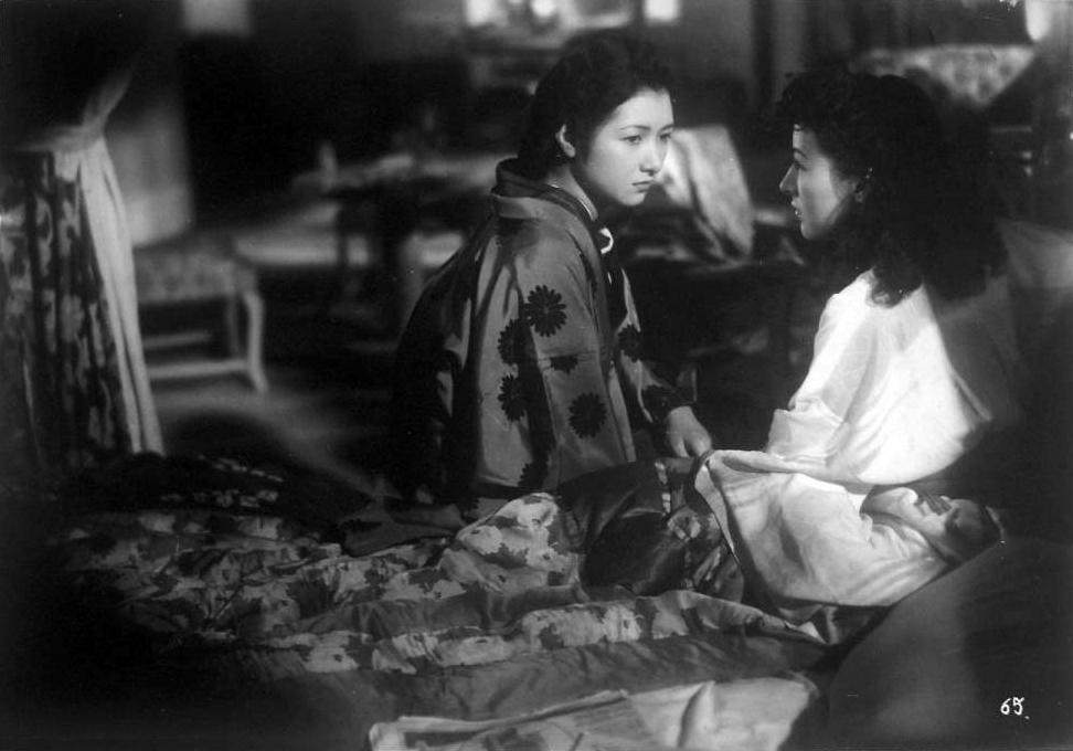 Hideko Takamine (left) and Yumeko Aizome in the 1947 film Ai yo hoshi to tomoni (愛よ星と共に)